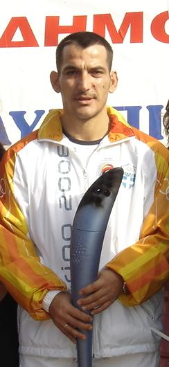 Pirros Dimas, 3-times Olympic winner, as photographed by me, User:Lemur12 during a visit of Olympic torch in Dion, Pieria, Dec 4, 2005.